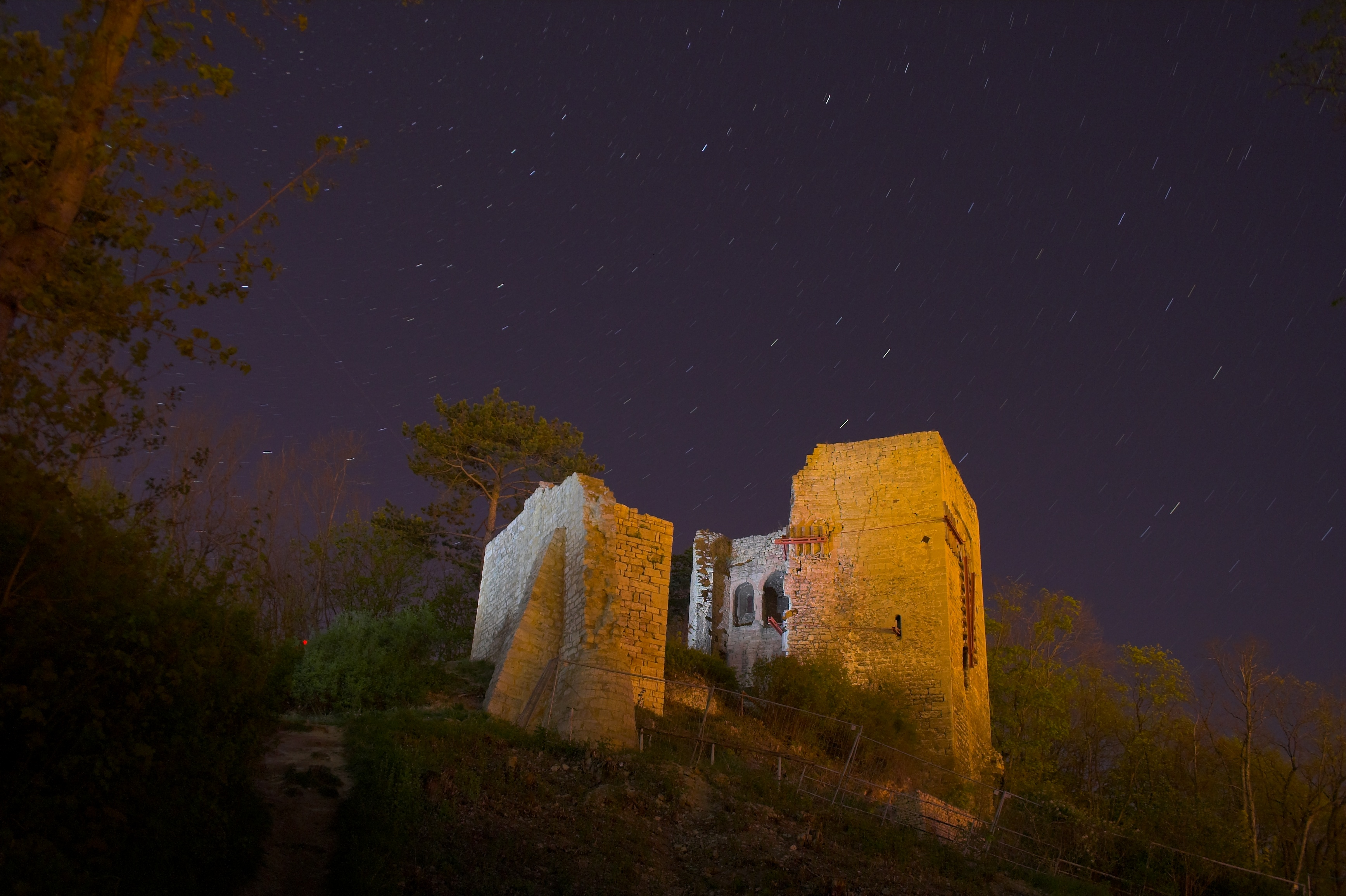 Lobdeburg near Jena by night.